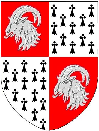 Arms of John Morton, Archbishop of Canterbury (d.1500): Quarterly gules and ermine in the first and fourth quarters a goat's head erased armed argent or; Quarterly 1st & 4th: Gules, a goat's head erased armed argent; 2nd & 3rd: Ermine (A General Armory of England, Scotland, and Ireland By John Burke, Bernard Burke[1]) Also of the Morton Baronets.